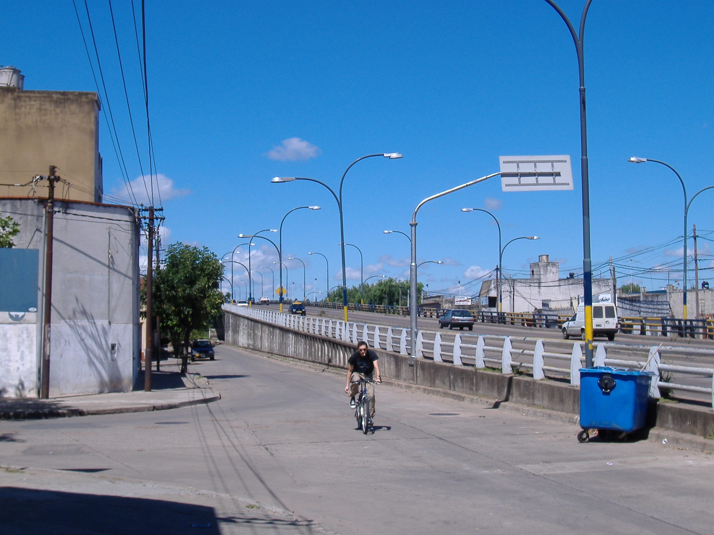 Viaducto Avellaneda, in north-east Rosario, Argentina. It is an elevated portion of the Avellaneda Boulevard which runs over the railway operations base known as the Patio Parada. The Viaducto was built in order to join the northern part of the city with the center (downtown). This view faces south. This picture was taken by Pablo D. Flores on 4 March 2006.